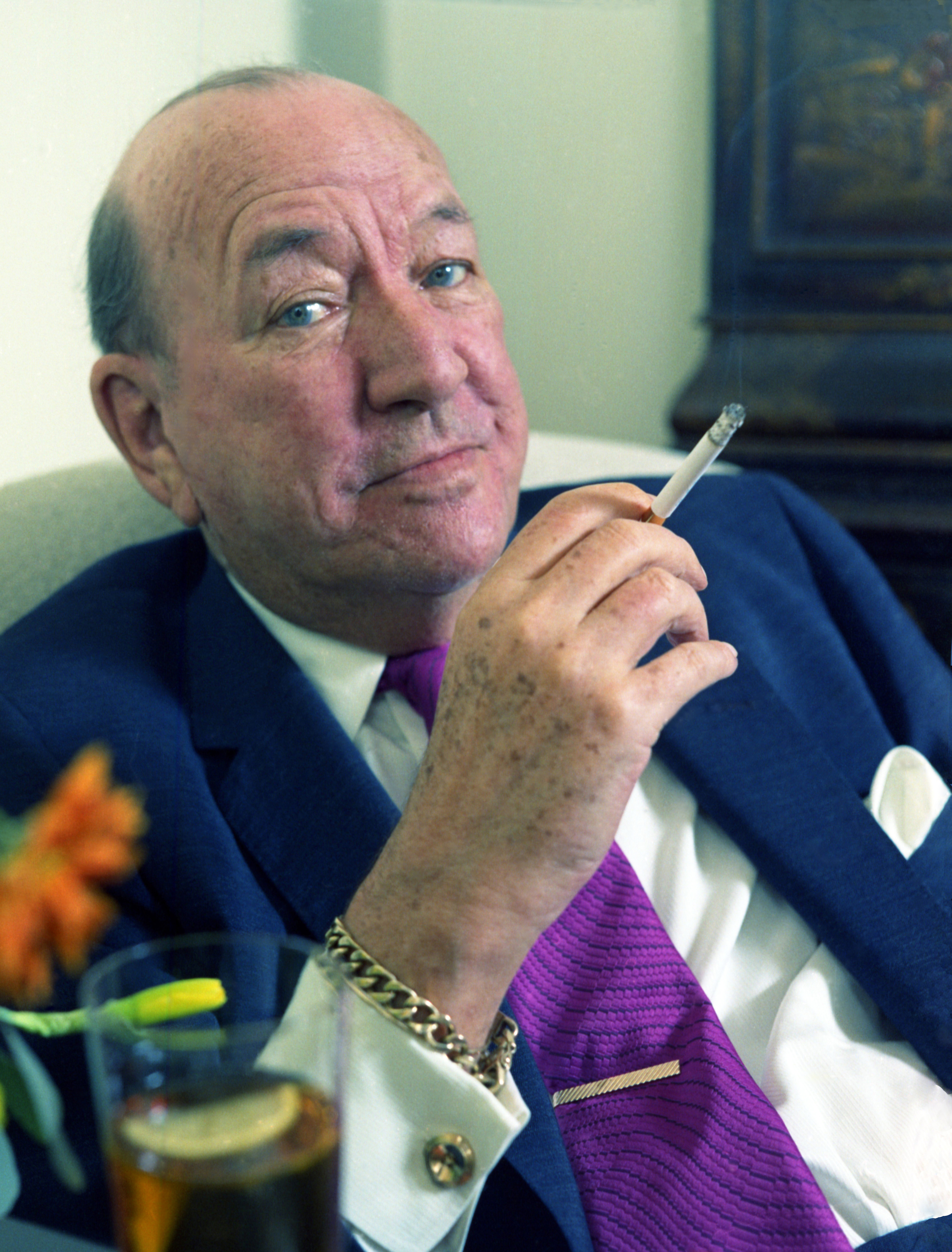 Portrait for Noël Coward's last Christmas Card